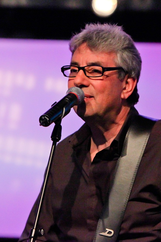 Graham Gouldman at 10cc's performance in Swedish TV show Bingolotto, September 19th, 2010